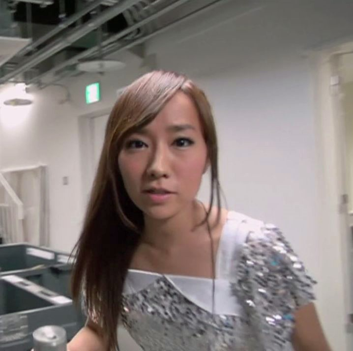 Japanese voice actress and singer Ayahi Takagaki during the Sphere Eternal Live Tour 2014